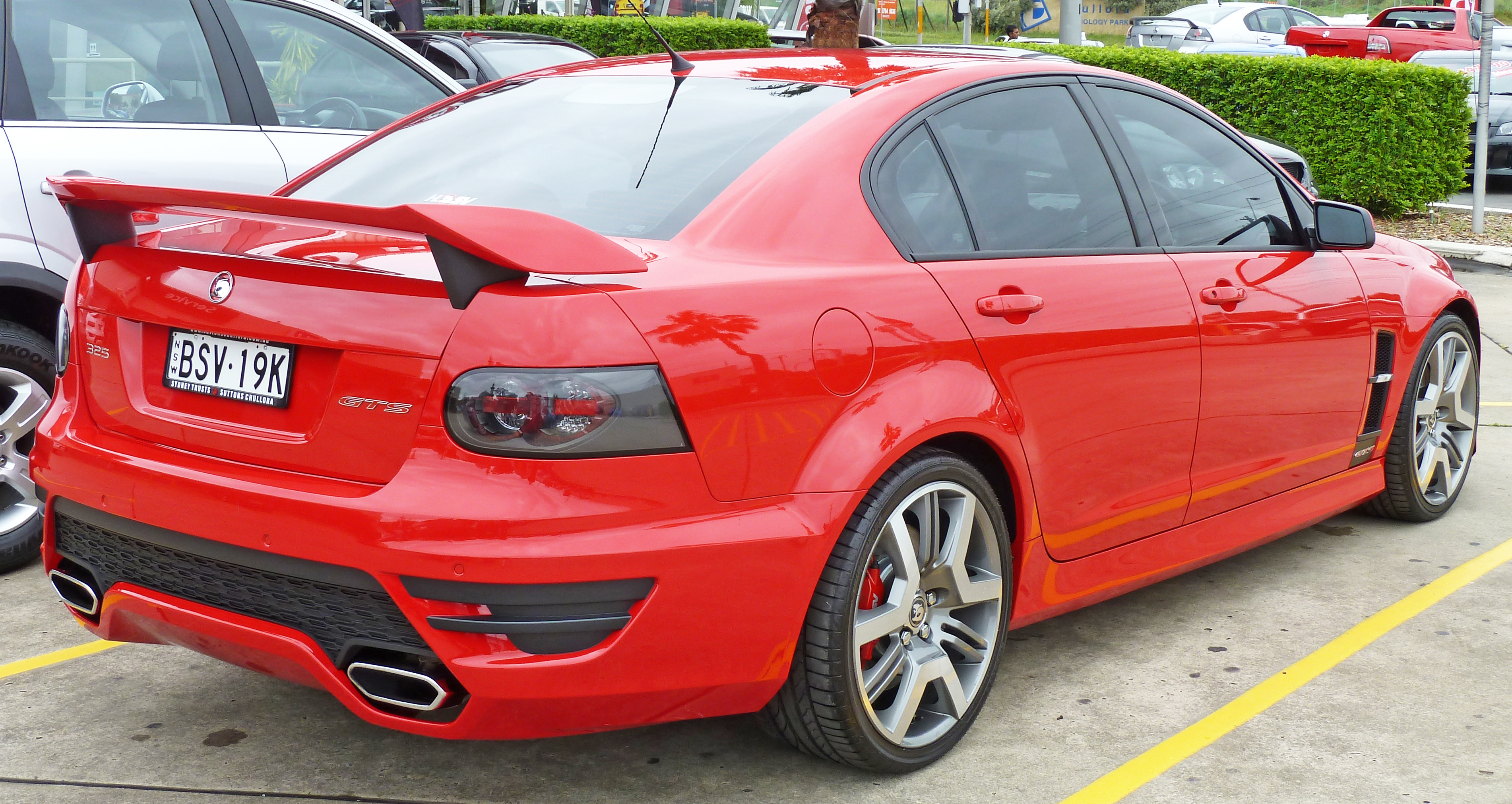 2010 HSV GTS (E Series 2 MY10) sedan. Photographed at Suttons Holden, Chullora, New South Wales, Australia.